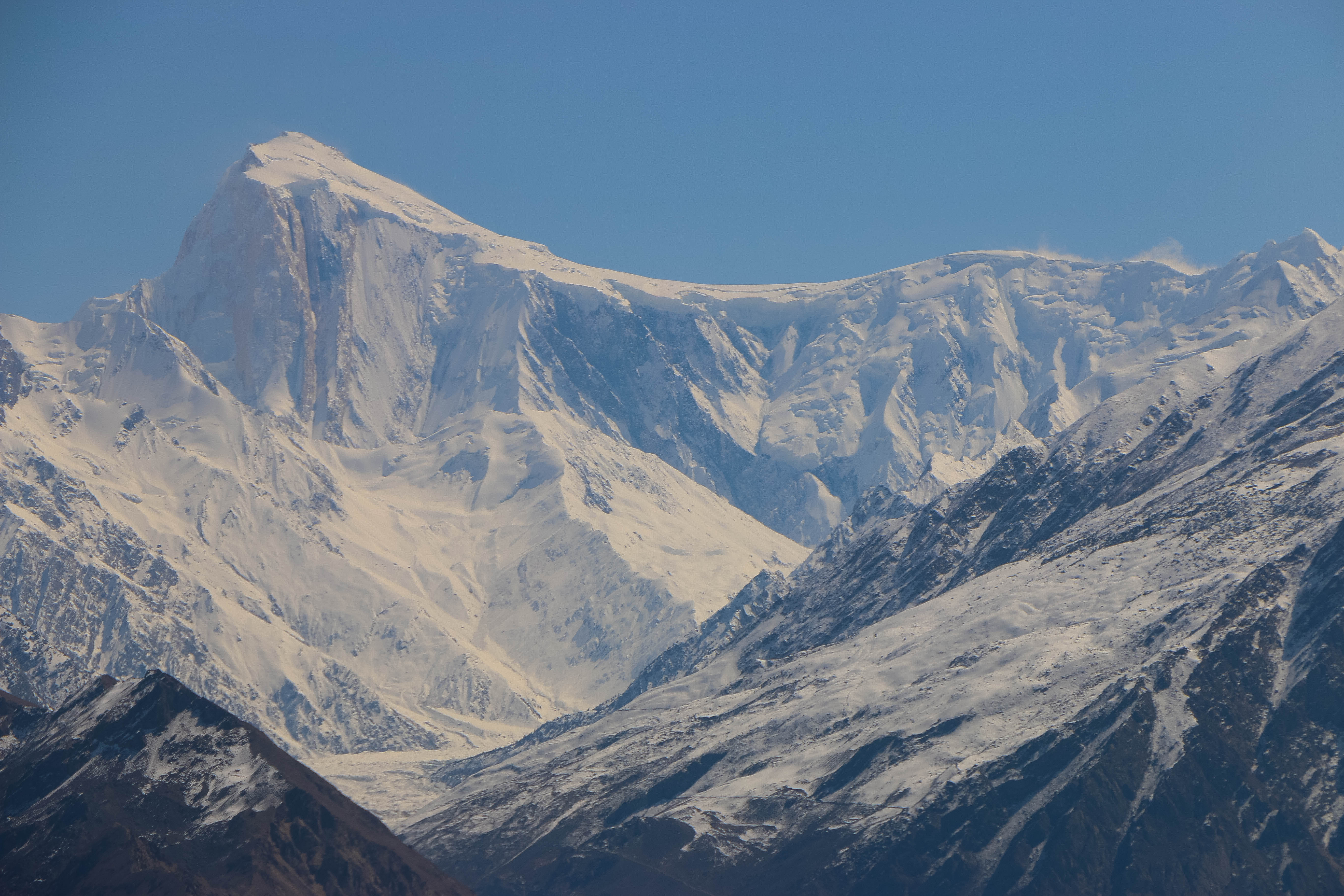 Spantik also known as the Golden Peak is a 7027 m high peak in Nagar Valley of Gilgit Baltistan, Pakistan.